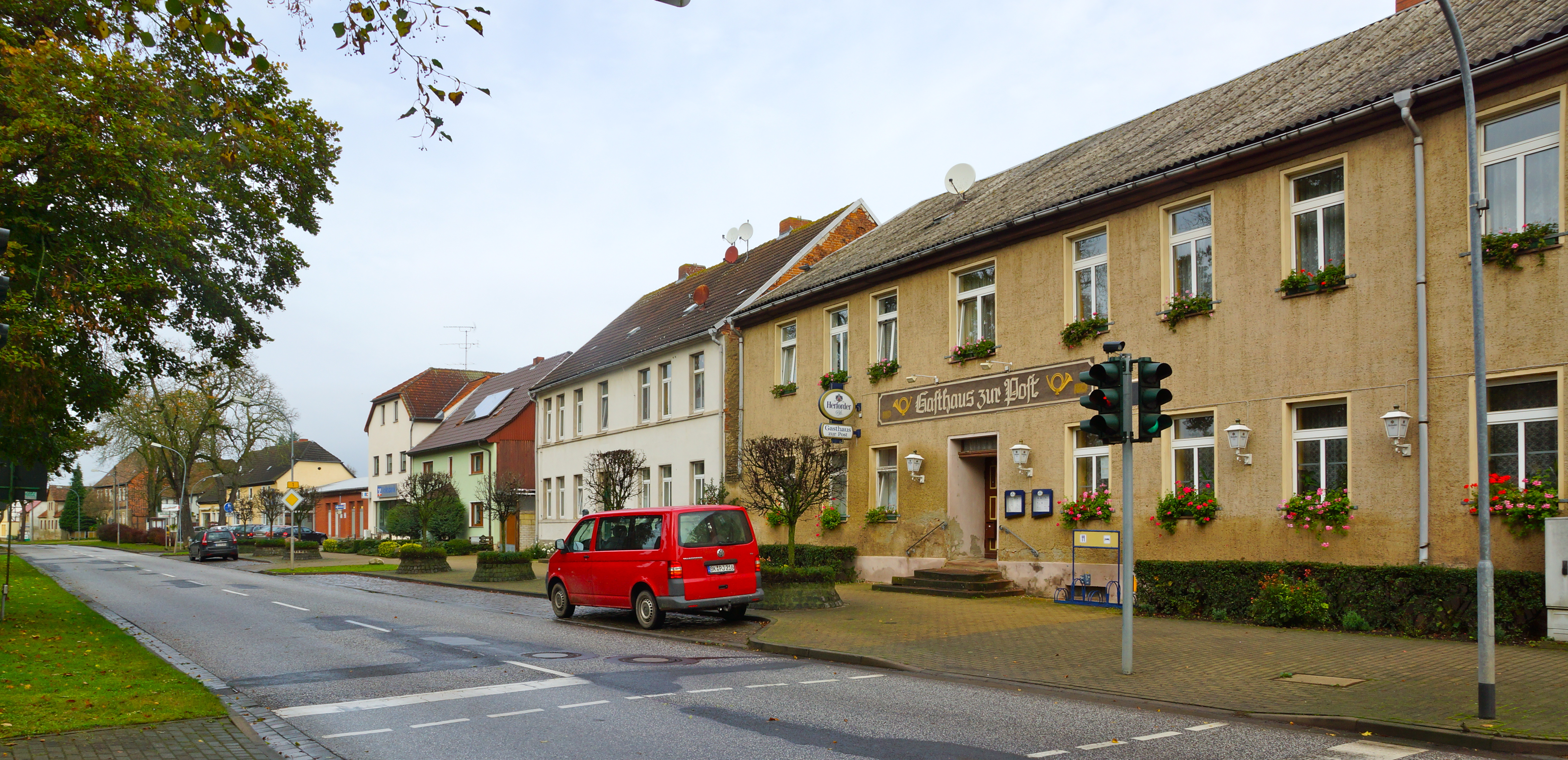 Erxleben, Germany: The birth's house of Albert Niemann